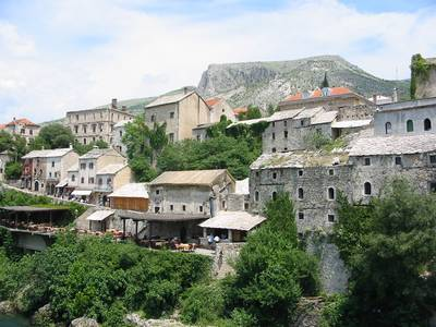 View on mostar riverside, picture taken in June 2003